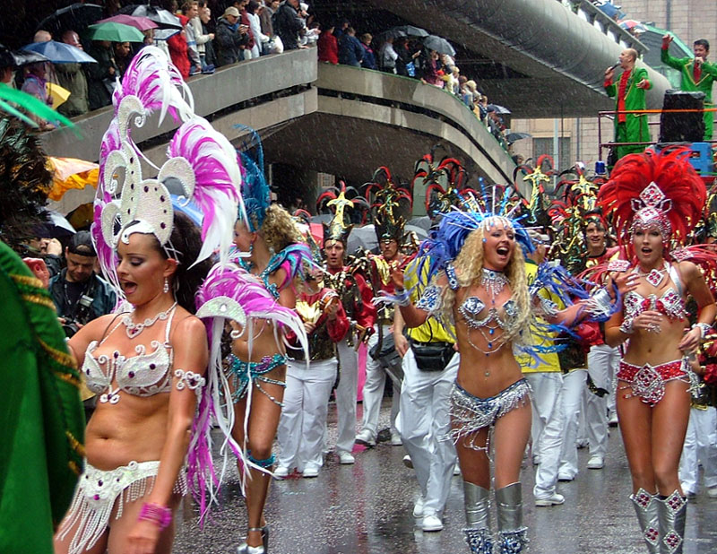 Helsinki Samba Carnaval, 2004, seen on Keskuskatu in downtown Helsinki. Heavy rain and a temperature of only about 13 °C did not seem to dampen the spirits of the samba dancers. The samba school pictured here is, afaik, Império do Papagaio, based in Helsinki.